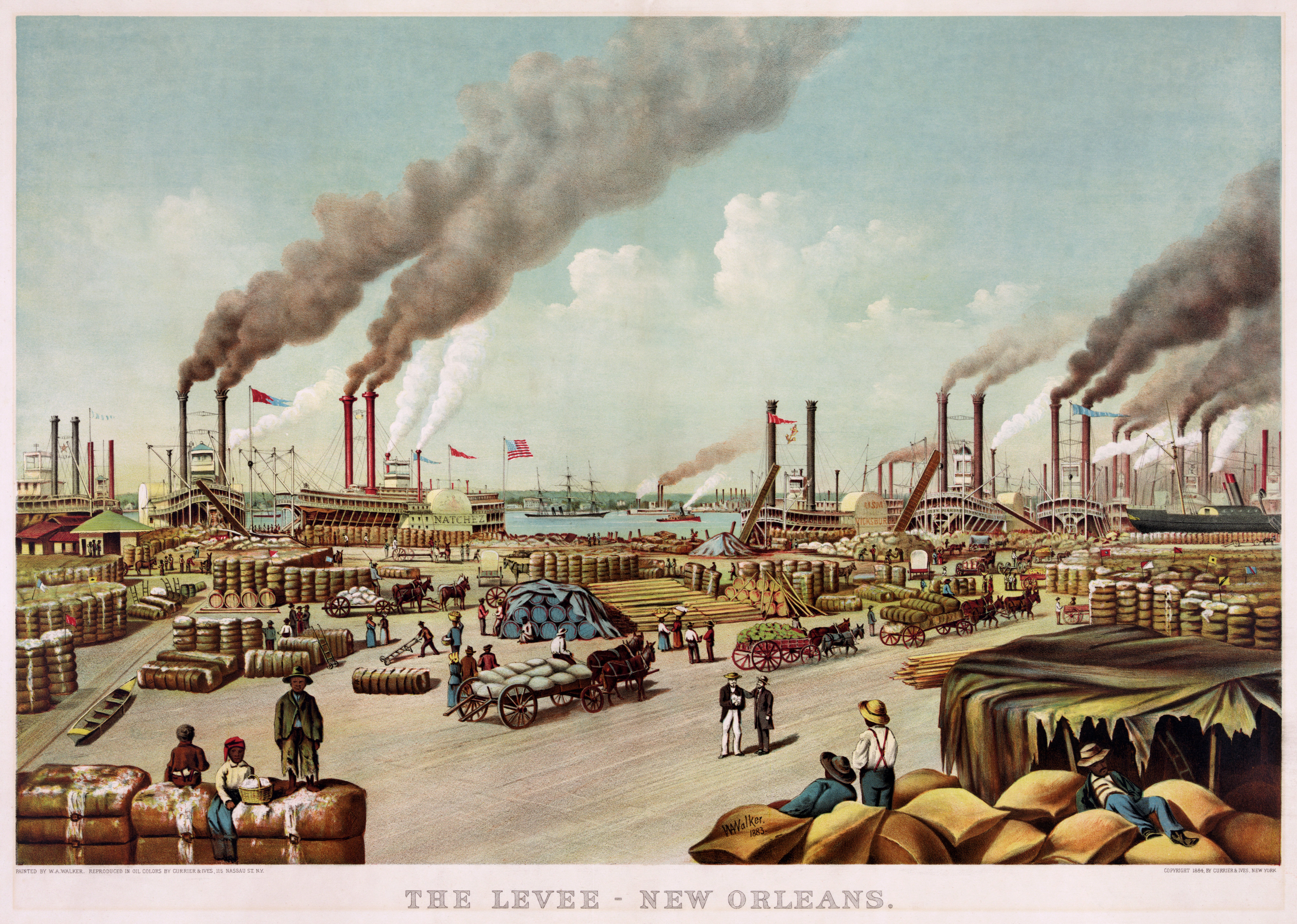 The levee, New Orleans.